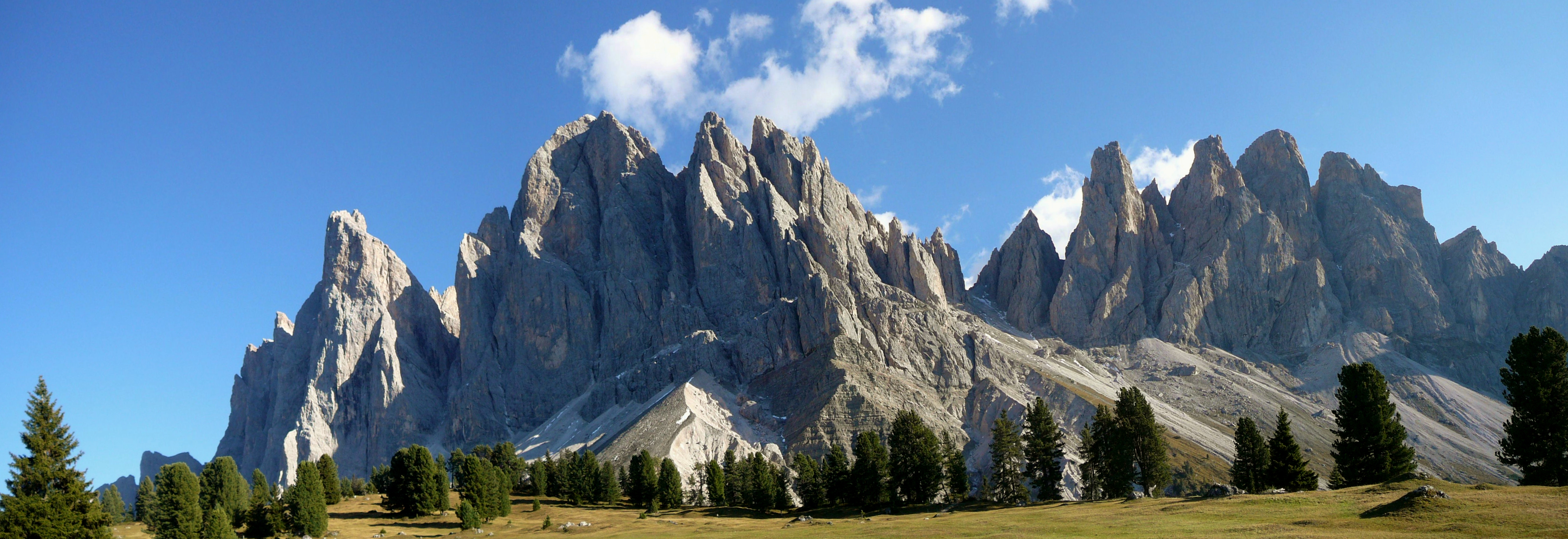 Geisler/Odle group